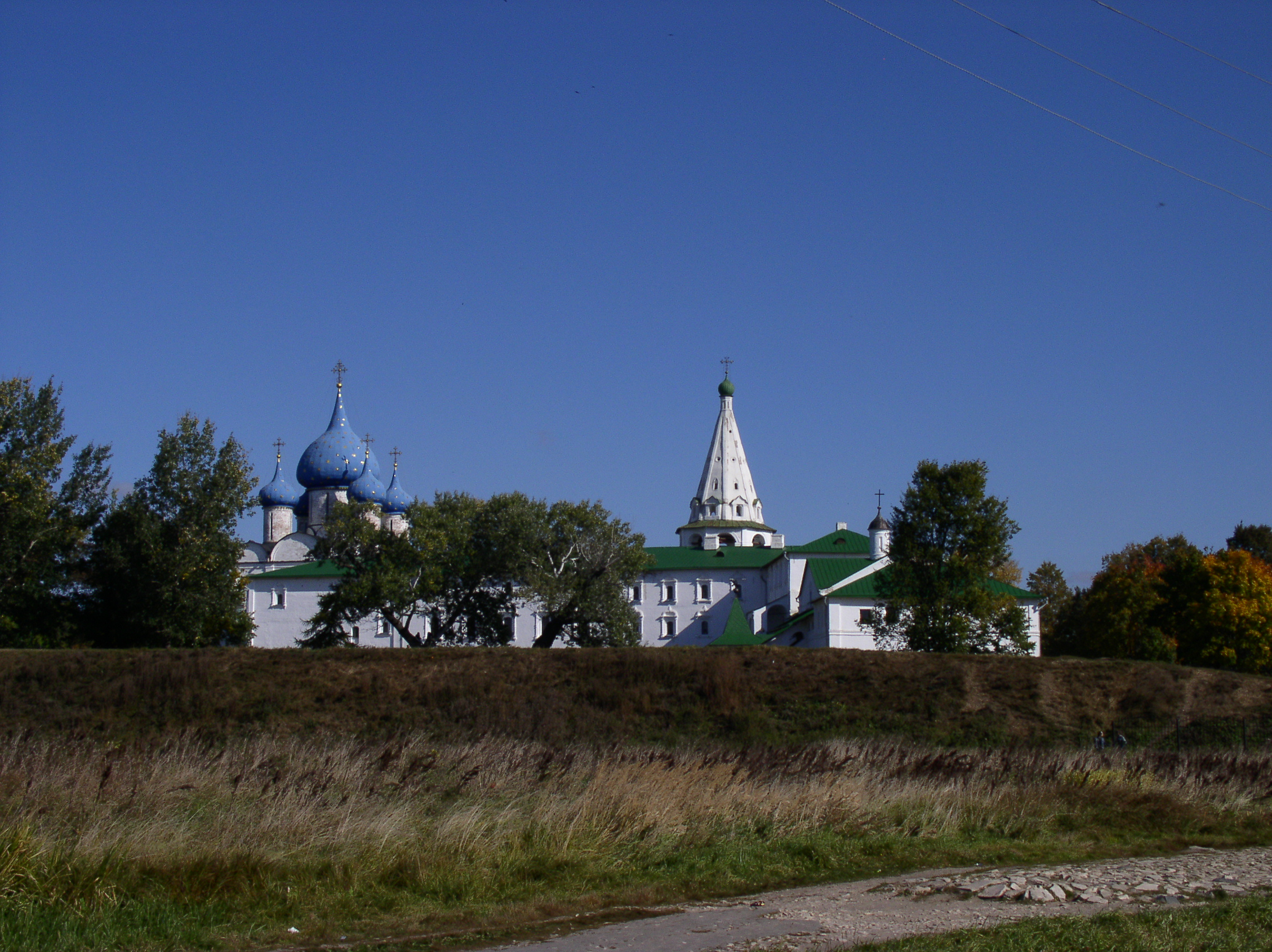 Archbishop's Palace and Nativity Cathedral. Suzdal, Russia.